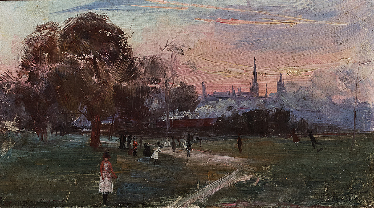 Evening game, oil on cardboard, 13.5 x 23.2 cm, by Arthur Streeton.